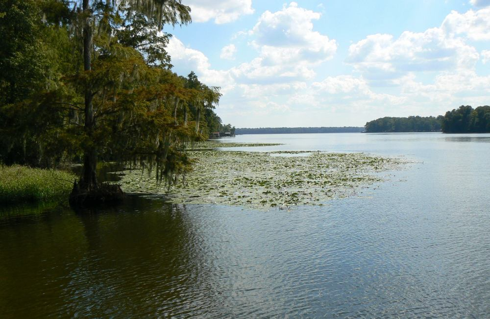 Lake Talquin, Florida USA, viewed towards the NE from the Gadsden Co. shore at Wallwood Scout Camp.